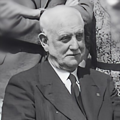 George Lansbury (cropped version of File:Photo 7 Council 1938, WRI George Lansbury.jpg, which is itself a crop of File:Photo 7 Council 1938, WRI.jpg)